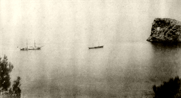 Ludwig Salvator's ship Nixe and Sissi's ship Miramar. License: Picture taken before 1920 and not protected any more. Scanned and image processed by Anton (2005)